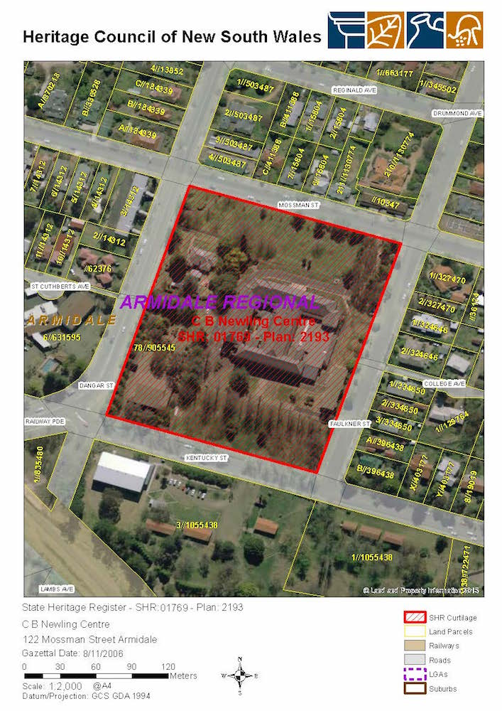 Old Teachers' College, Armidale: SHR Plan 2193